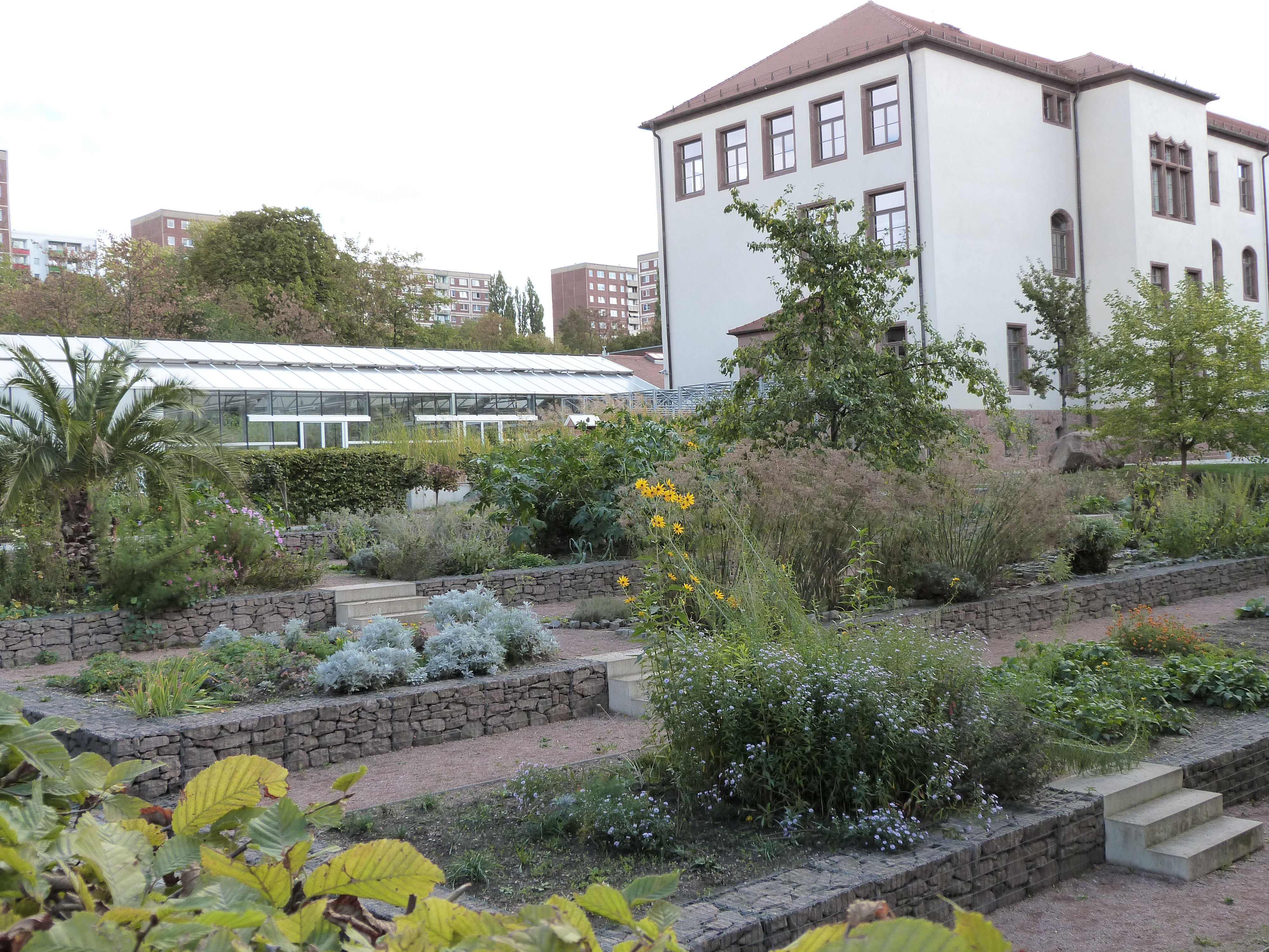 Pflantz-Garten (school garden), on the grounds of the former kitchen garden, Francke foundations, Halle (Saale)